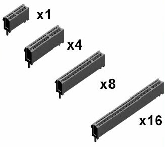 Various PCIe Slots